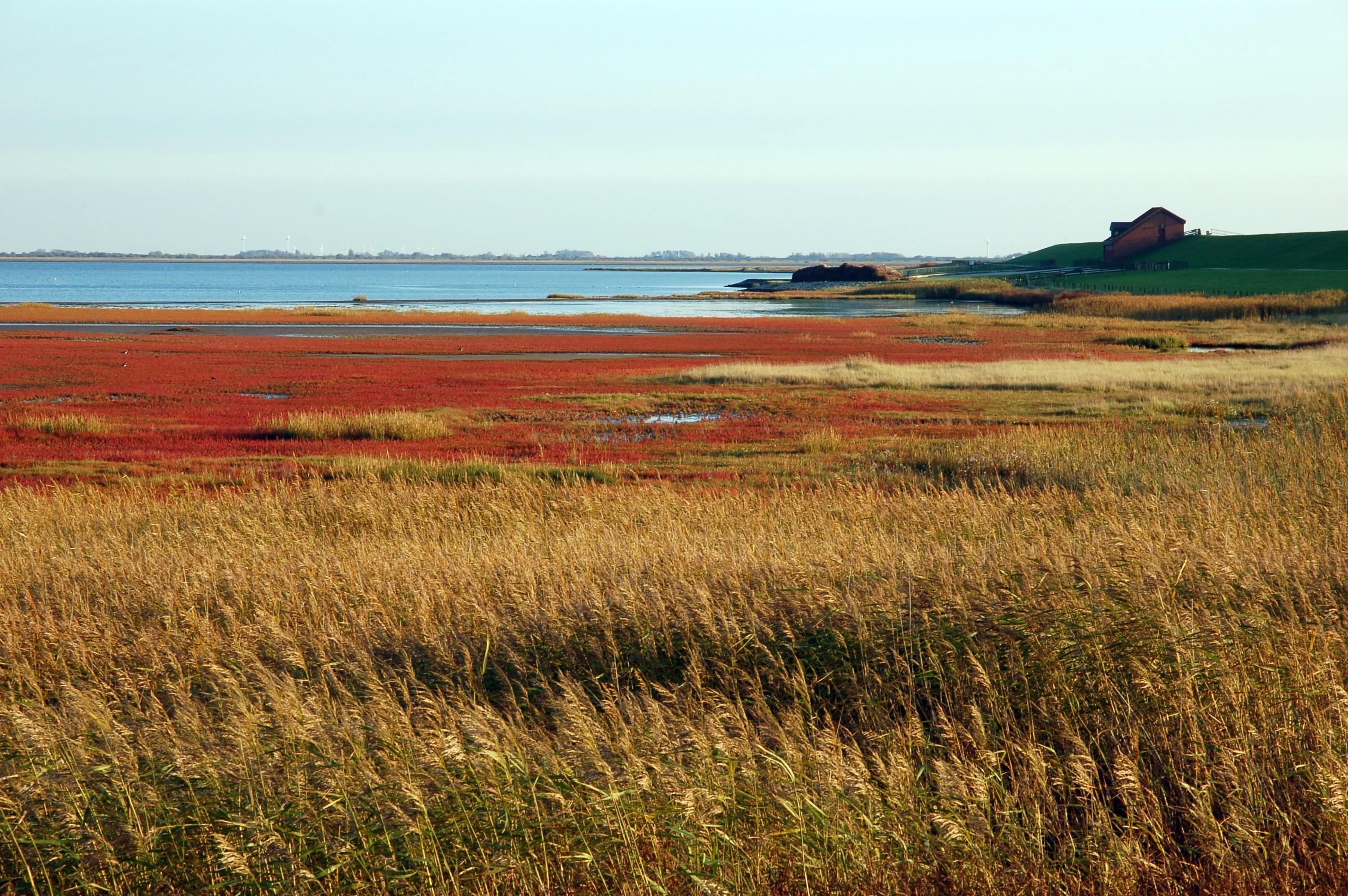 Beltringharder Koog, Nordfriesland, Germany